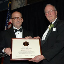 Charles Hard Townes (right) with Kenneth M. Ford receiving the 2006 Vannevar Bush Award "For his notable scientific discoveries and research in the fields of quantum electronics and astrophysics, and distinguished public service influencing Federal policies on science and technology issues."